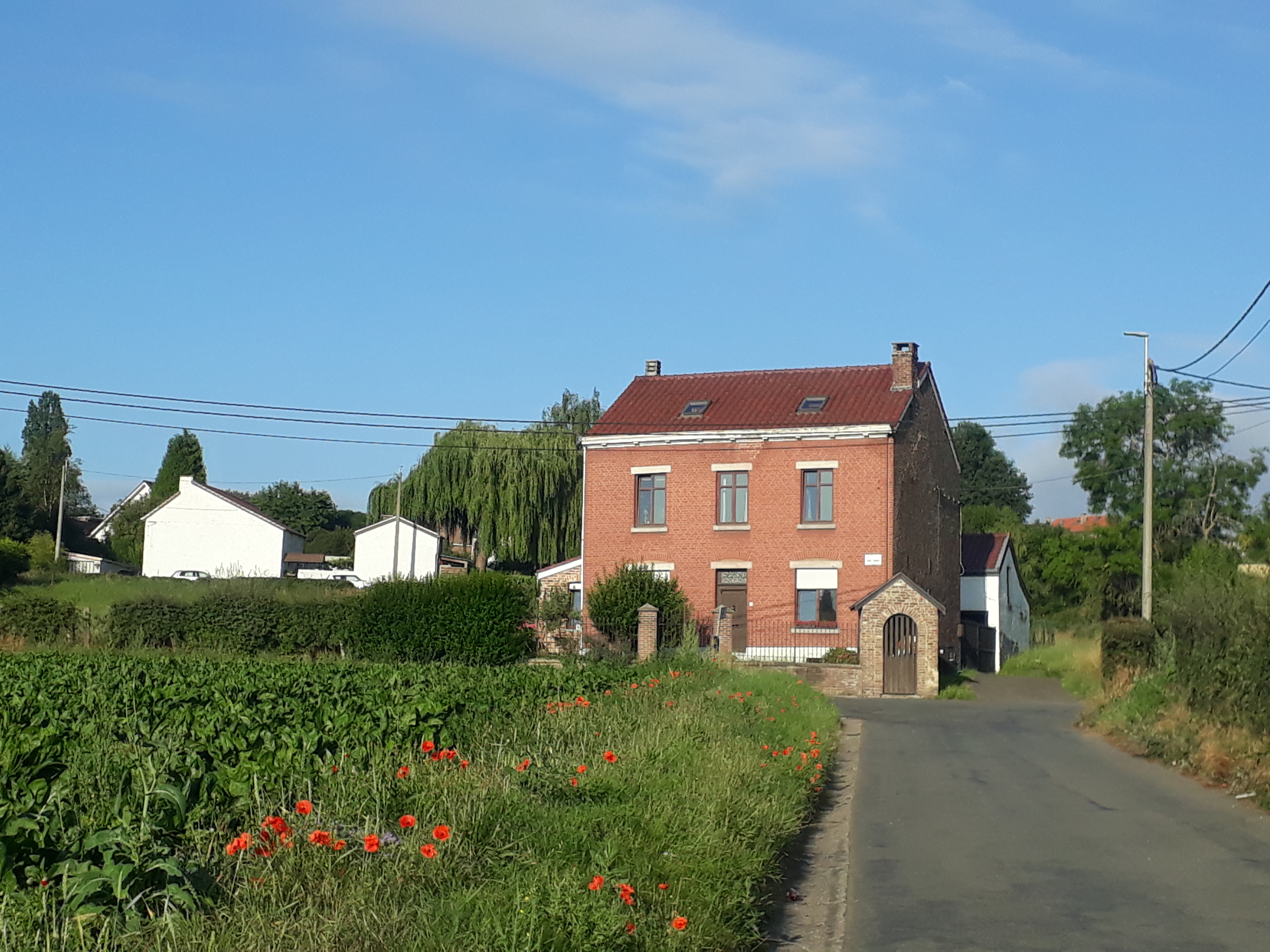 Cubolet